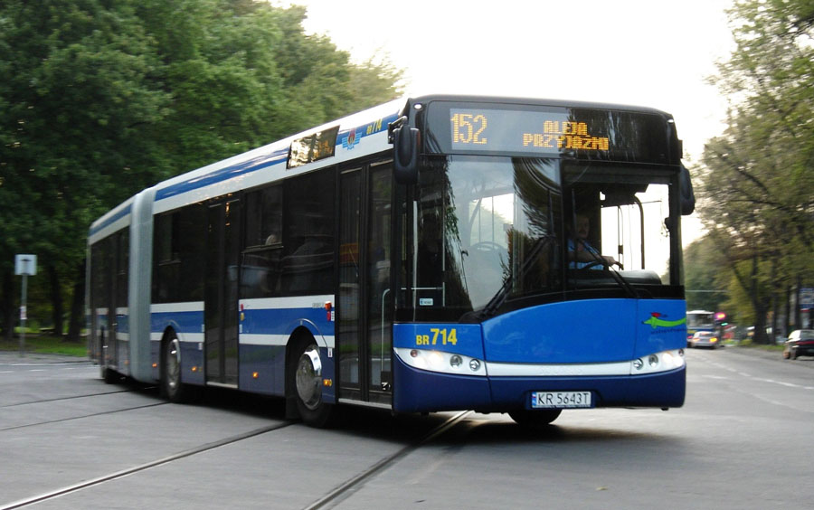 Solaris Urbino 18 Mk3 bus (#BR714) in Kraków, Poland. Year built 2005, MPK Kraków company.